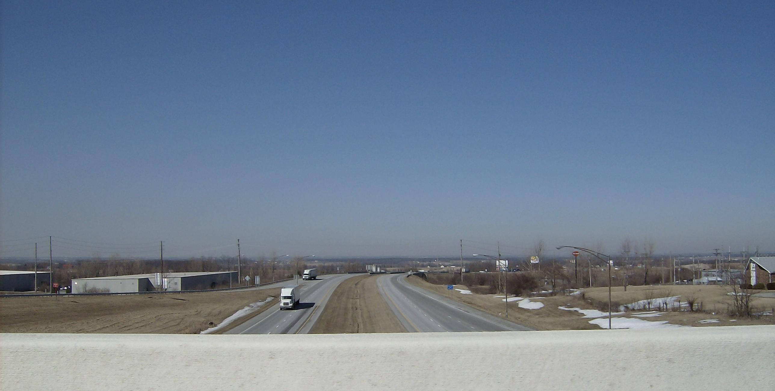 View westward over U.S. Route 33 from U.S. Route 68 bridge at Bellefontaine, Ohio. Bellefontaine is the highest point in Ohio, and this is the highest point on U.S. Route 68.